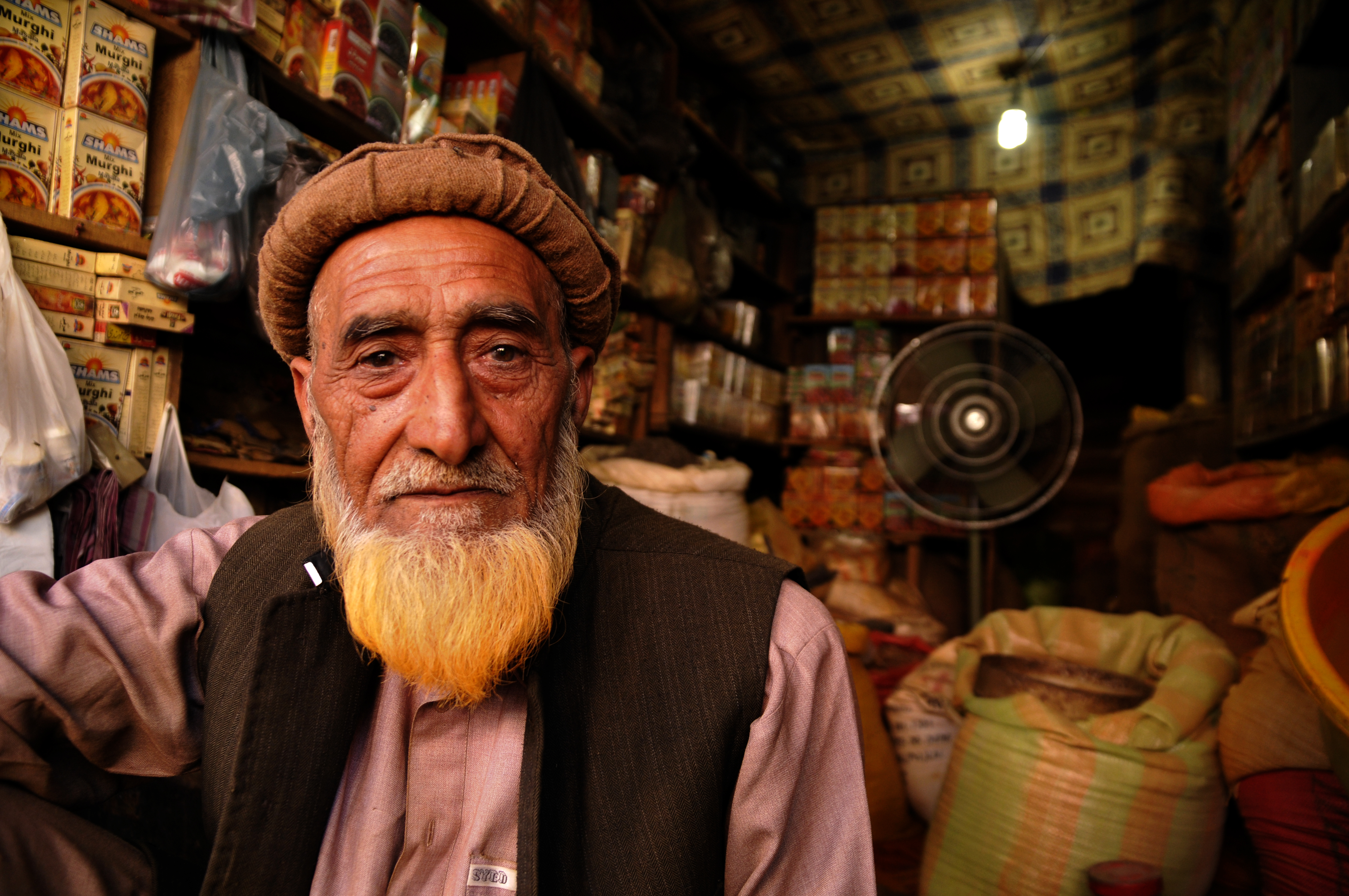 'Spice man', probably taken in Chitral town, Chitral, Khyber Pakhtunkhwa, Pakistan